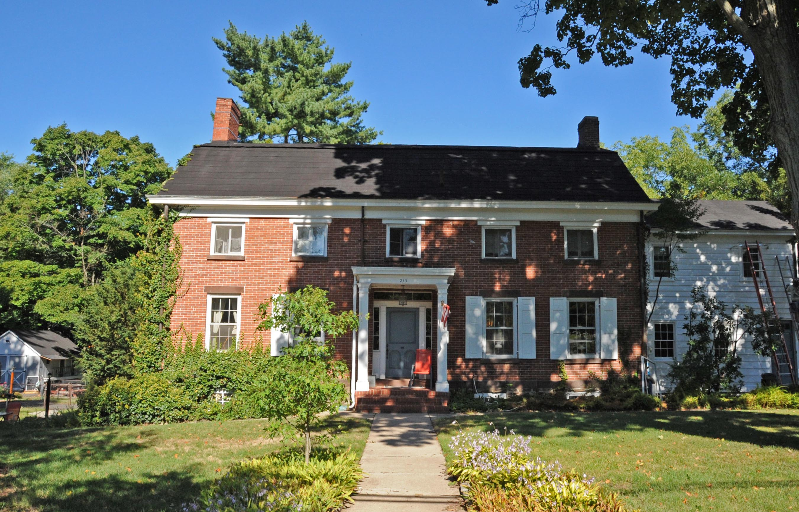 213 RAMAPO VALLEY ROAD- PERIOD OF SIGNIFICANT RANGES FROM 1750-1849 AND NO HISTORICAL DATA IS AVAILABLE